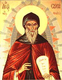 St. Symeon the New Theologian (Orthodox icon)